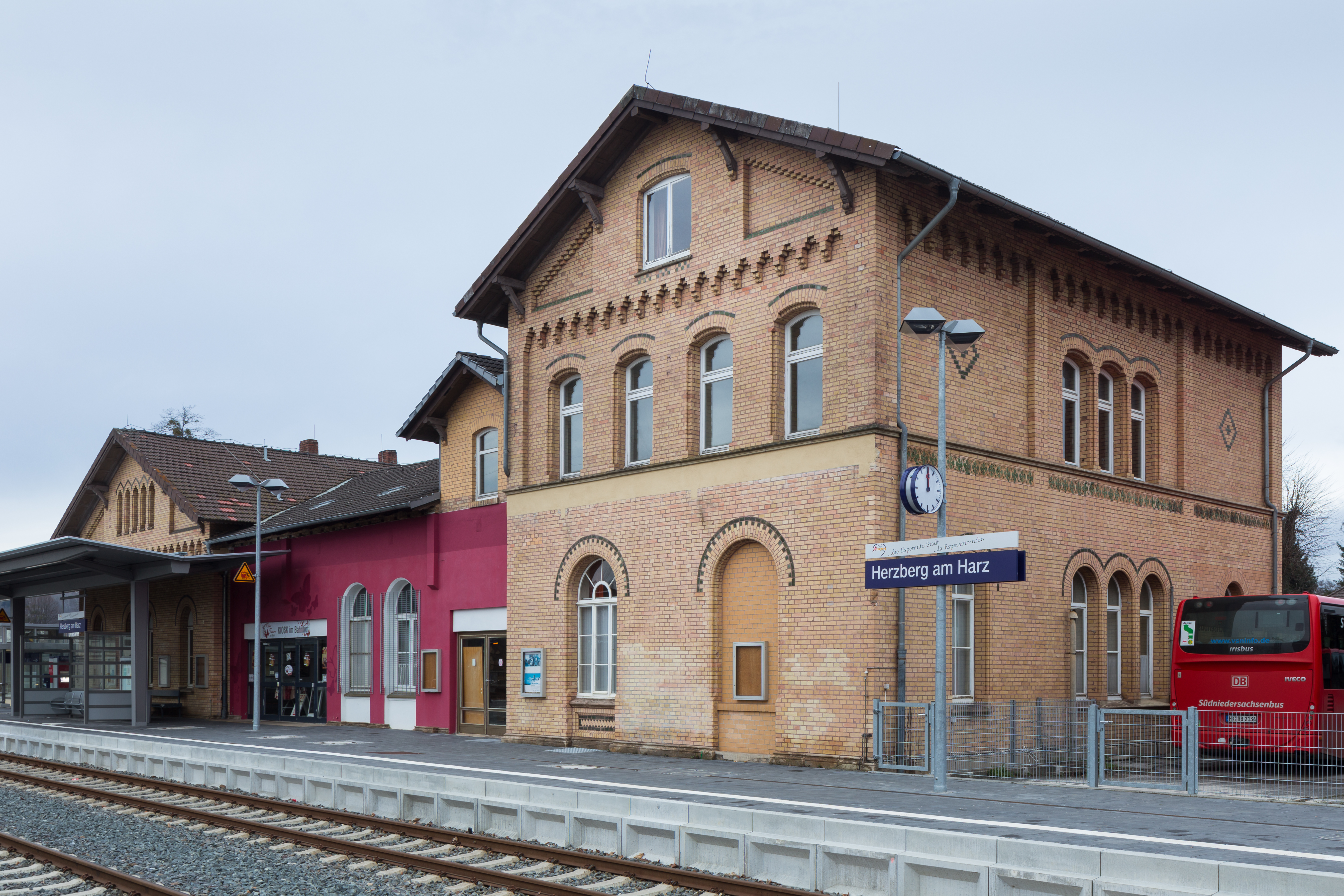 Train station (track side) located in Herzberg am Harz, Germany.